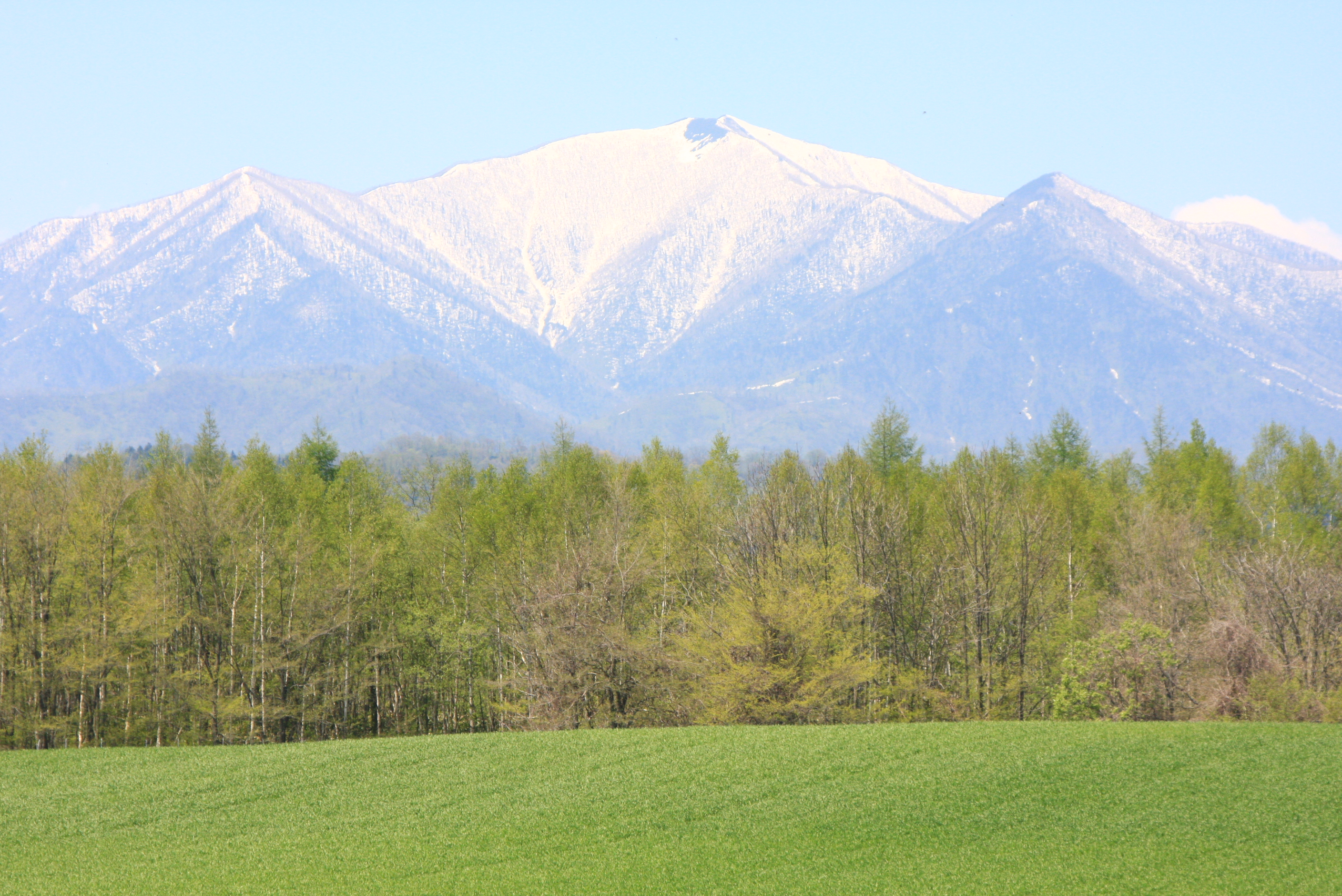 The ESE side of Mount Tokachi-Poroshiri (Tokachi-Poroshiridake) as seen from Nakasatsunai Village in Hokkaido, Japan.